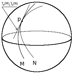 Transvers not